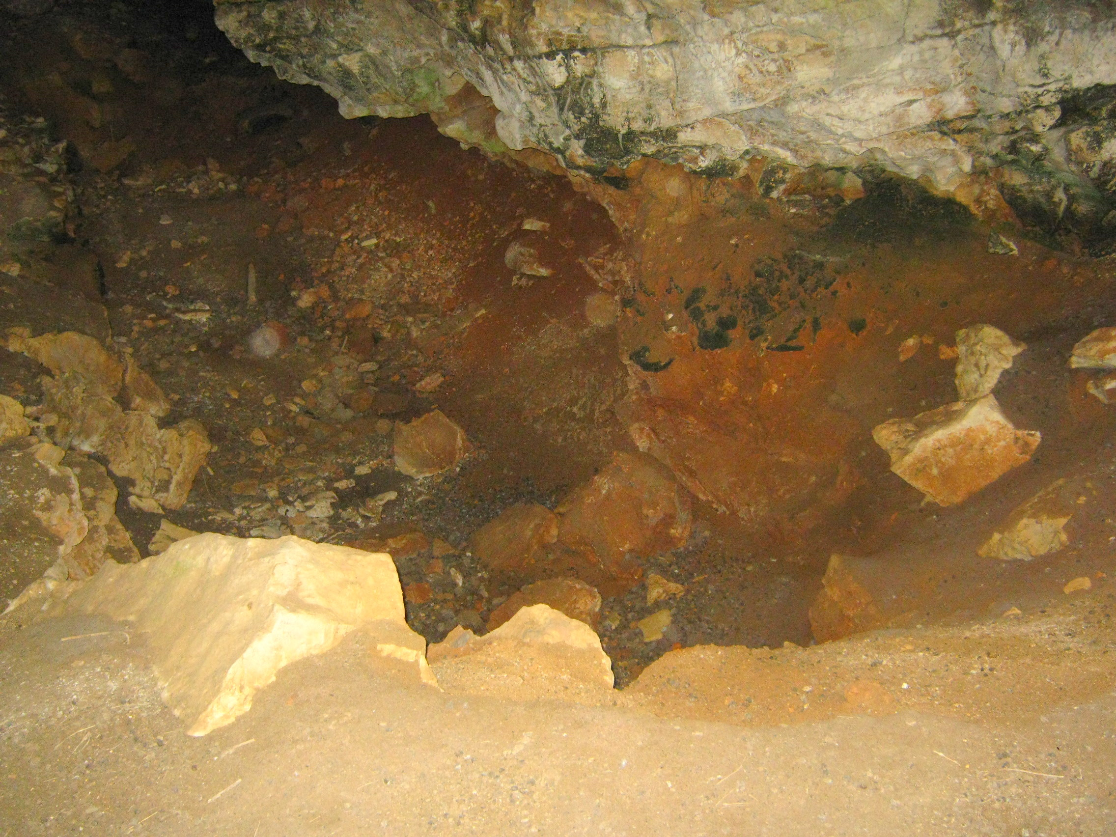 The archaeological excavations in Samuilitsa cave - one of the most important Middle Palaeolithic sites in Bulgaria.